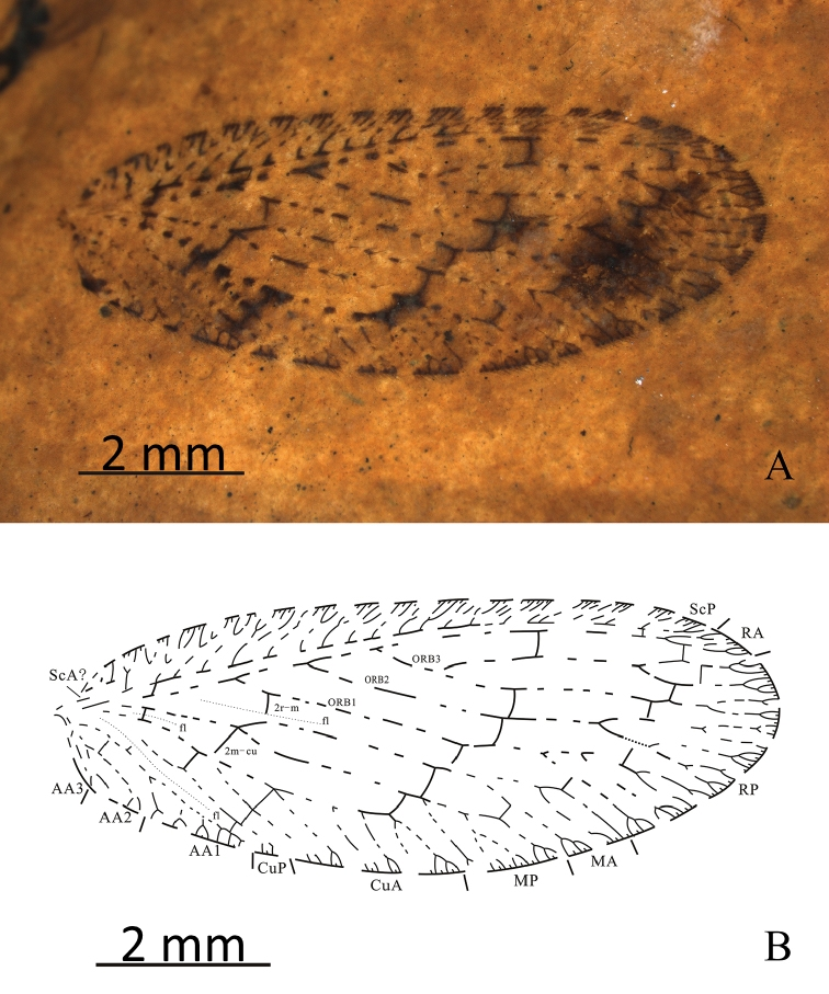 Wesmaelius makarkini forewing, holotype CNU-NEU-QZ2017001